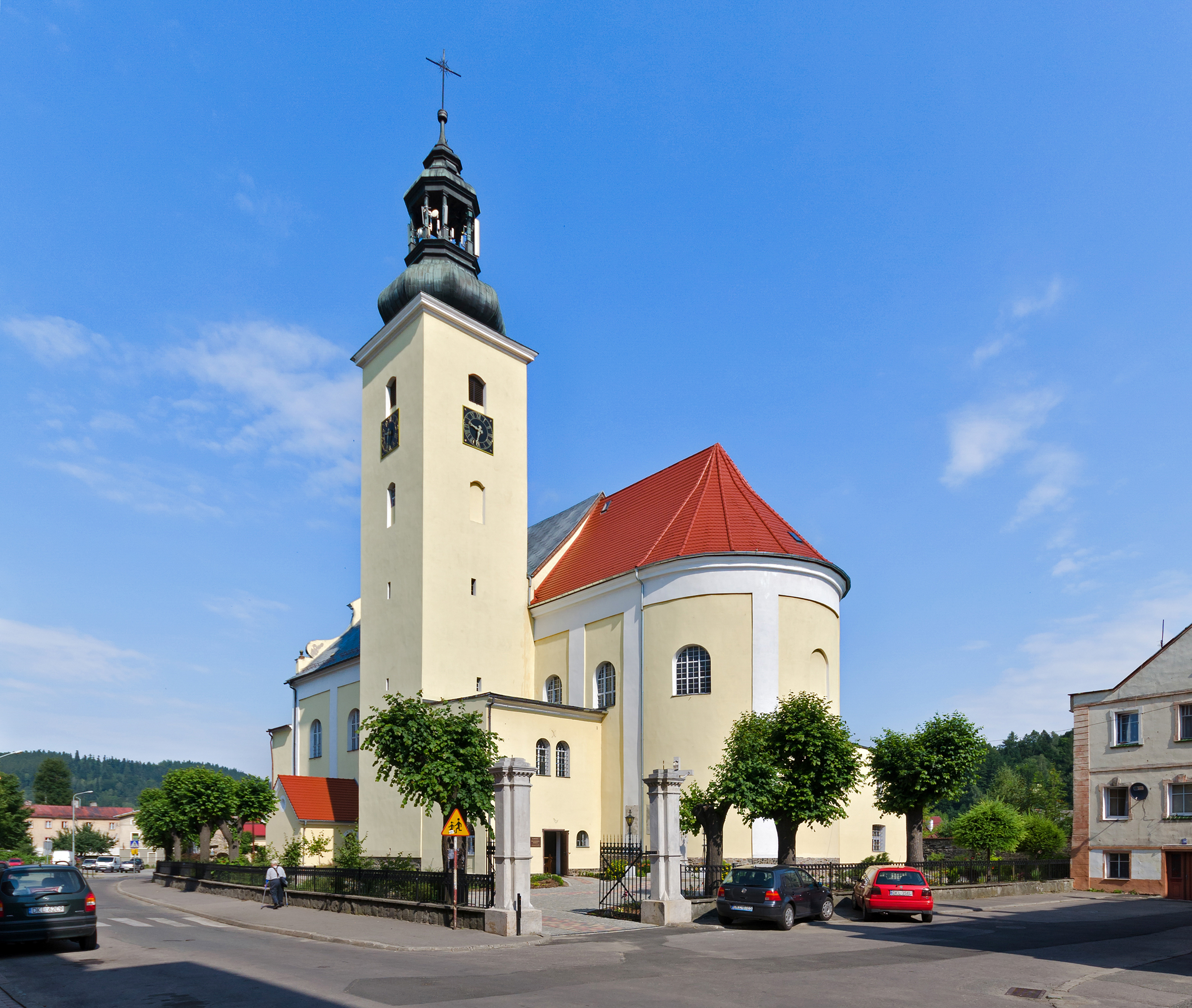 Church of the Nativity of the Virgin Mary in Lądek-Zdrój